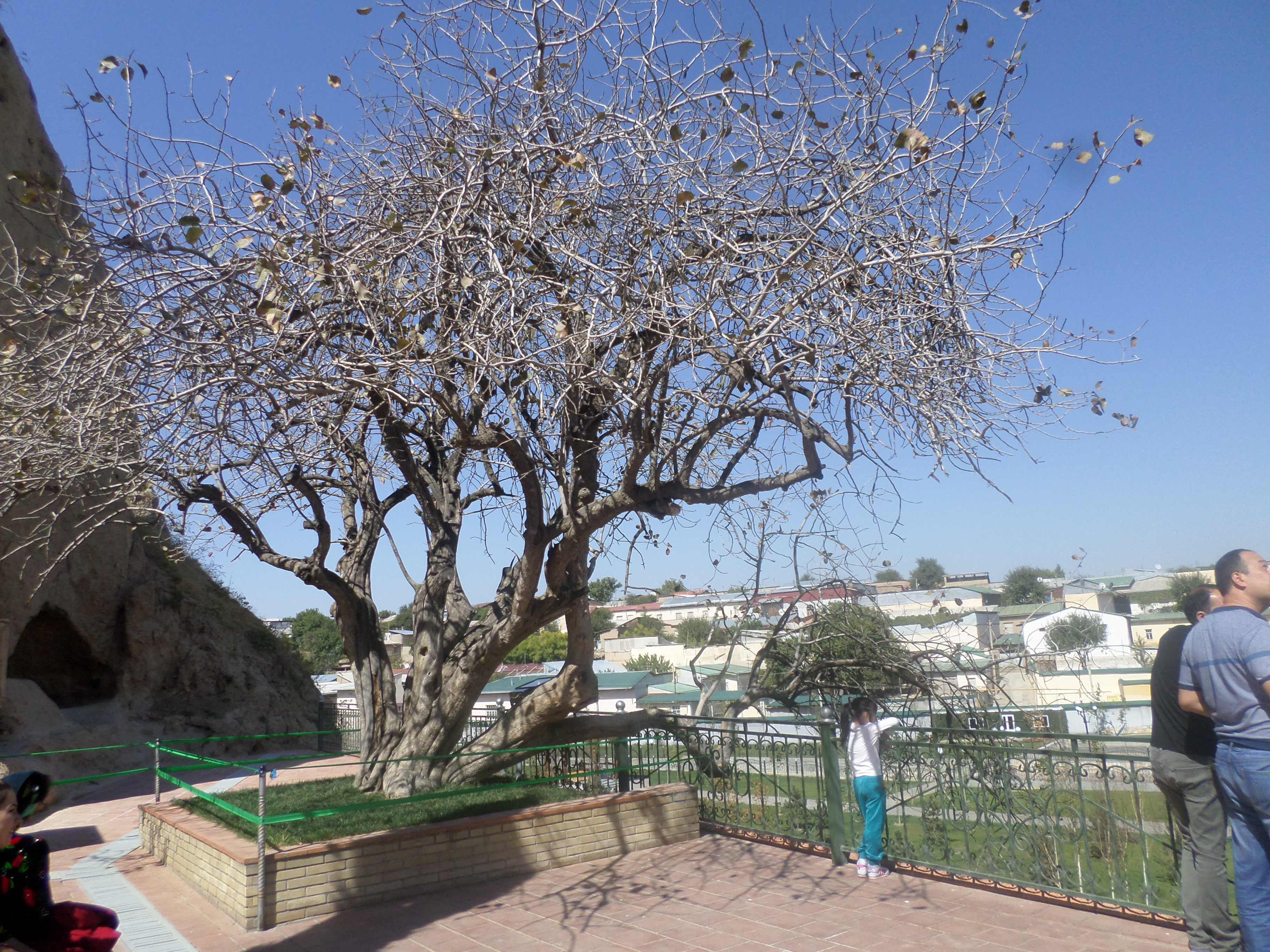 Mausoleum Khoja Daniyar